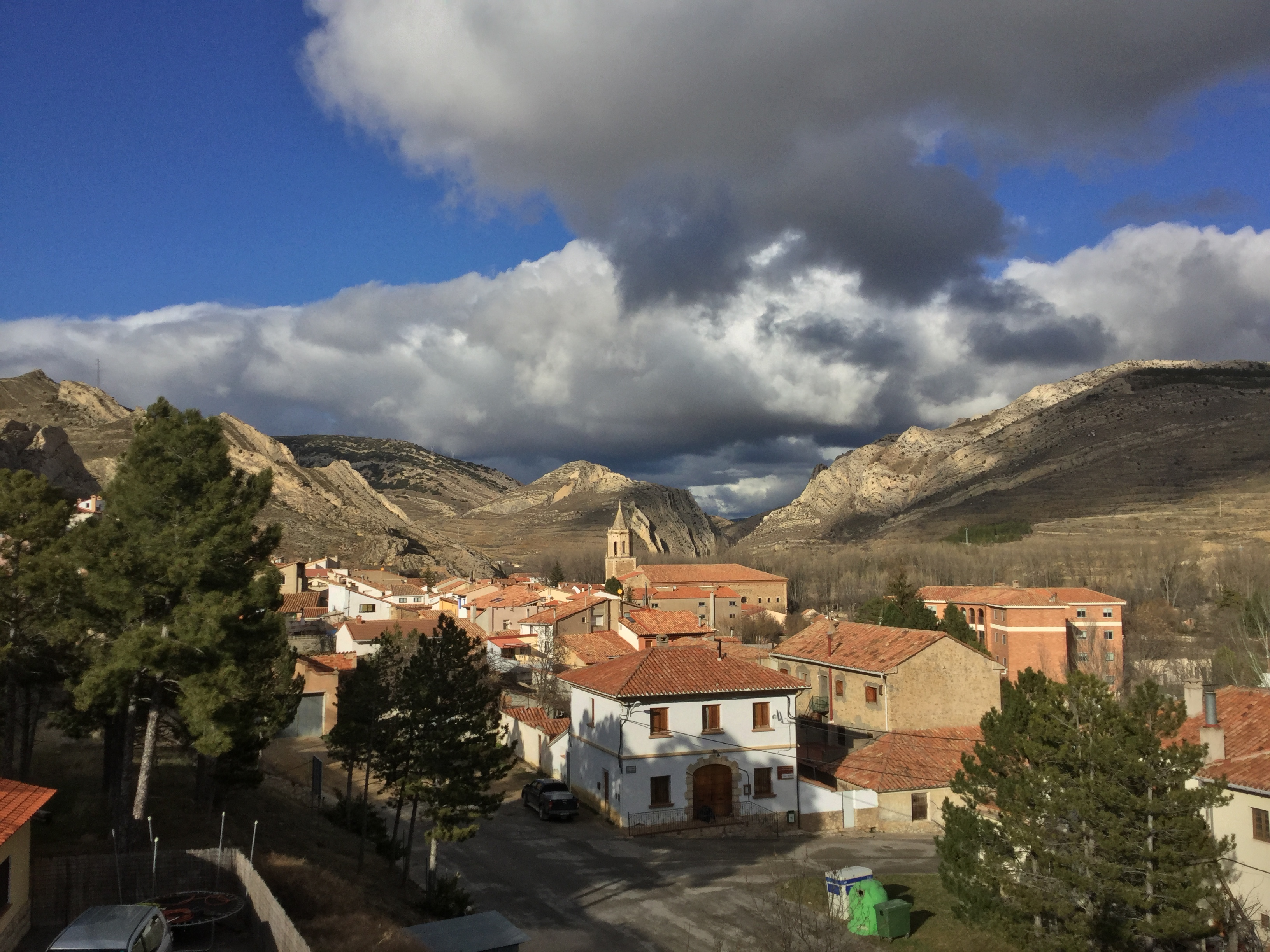 Aliaga is a municipality in the province of Teruel and Cuencas Mineras region known for its geological park, the castle and the thermal power active between 1952 and 1982